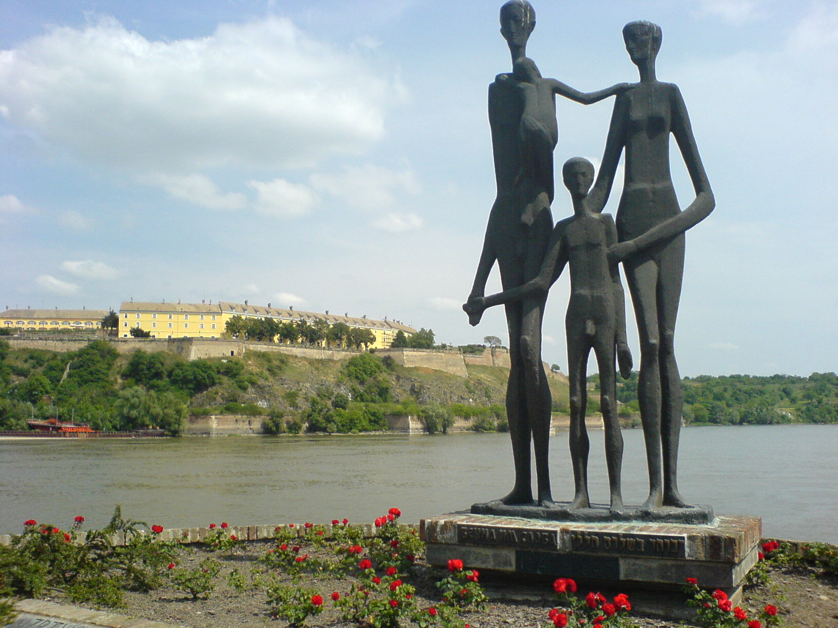 Petrovaradin Fortress and Monument on the Quay.